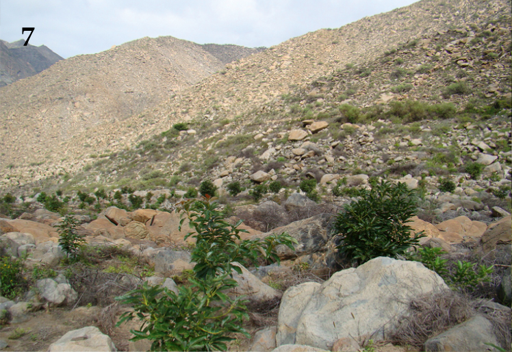 Photo of the type locality of Scutalus mariopenai. Catzcal 09°54’43’S 077°49’40’W, Ancash Region, Peru.